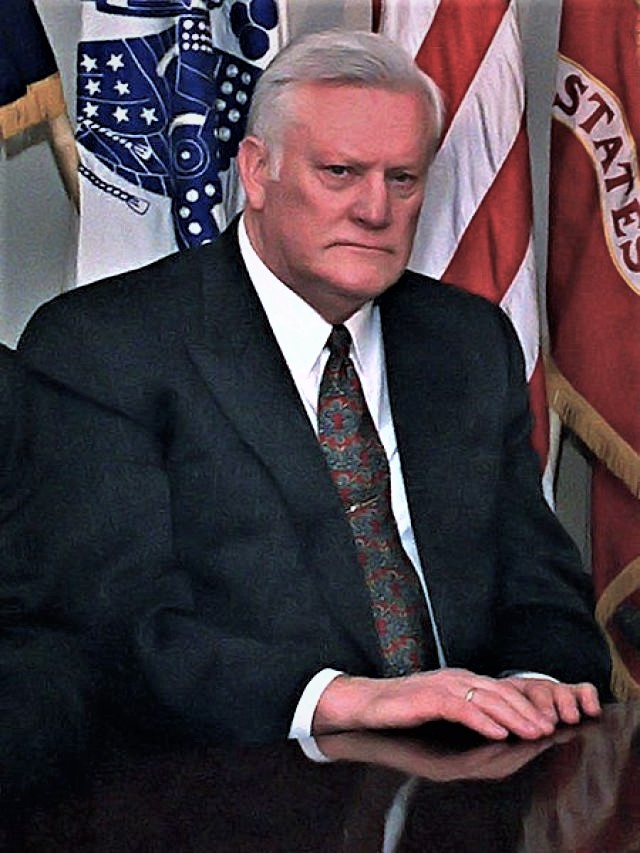 Algirdas Brazauskas, then president of Lithuania, during a visit to the Pentagon on January 15, 1998. (note: Image description on Pentagon site has wrong order of persons)